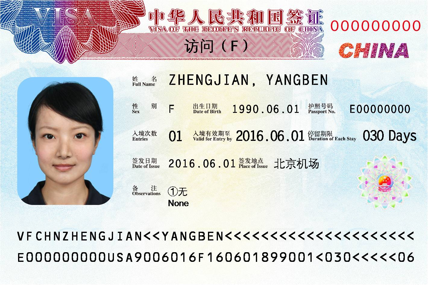 Visit Visa of the People's Republic of China, which issued by Exit and Entry Administration of Public Security and started to issue from June 1, 2019. 中文（中国大陆）: 由公安机关出入境管理部门签发的中华人民共和国访问签证，2019年6月1日起签发